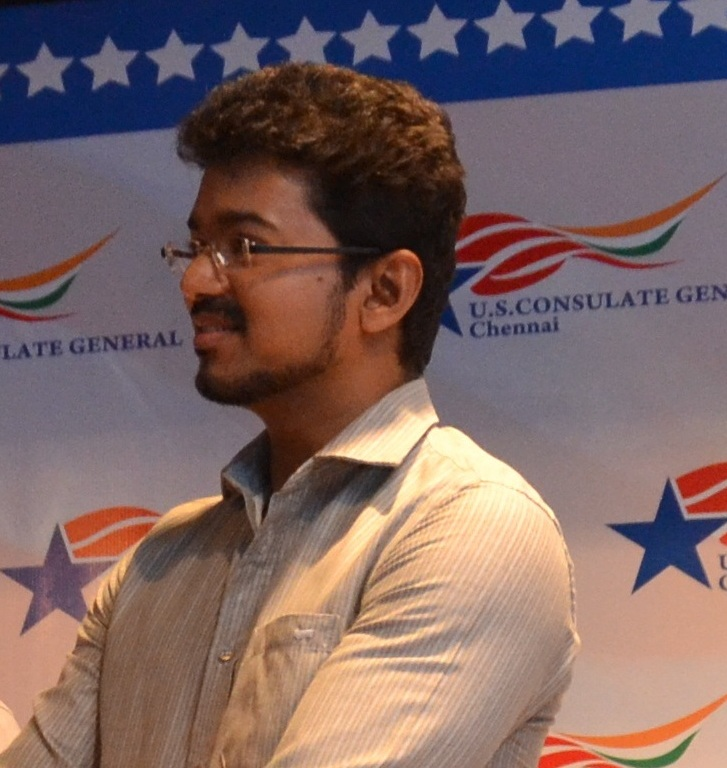 Tamil Film actor Vijay Celebrating World Environment Day at the U.S. Consulate Chennai